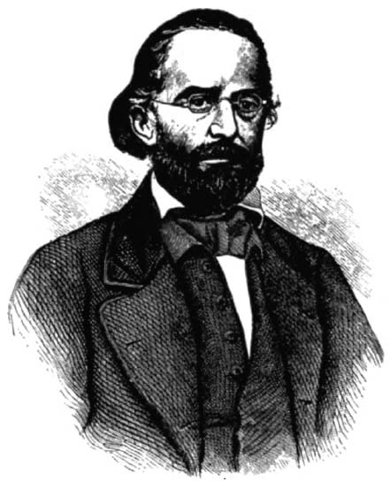 Portrait engraving of publisher and theatre director Henry Boernstein.